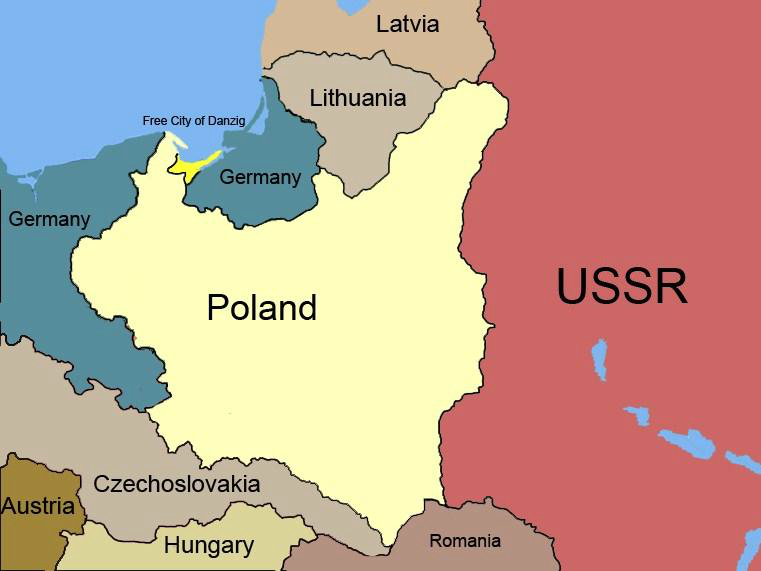 Poland and its neighbours.